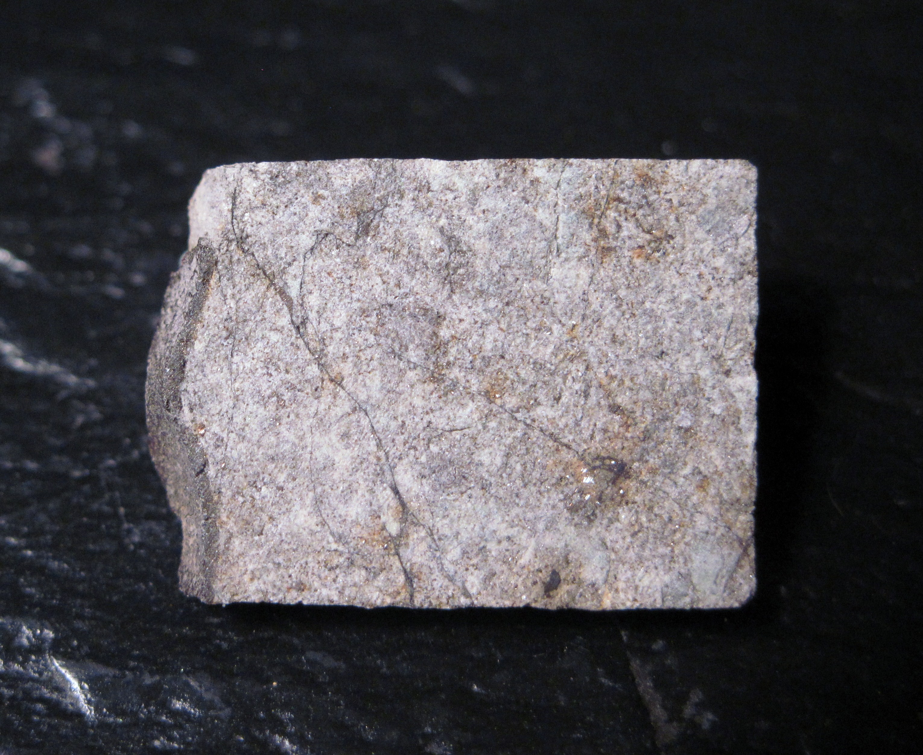 Karatu is an LL6 chondrite that was witnessed to fall on September 11th, 1963 in Arusha, Tanzania. A single stone weighing ~2.2 kgs was retrieved by witnesses. Karatu is not a common fall. This crusted partial slice weighs 3.276 grams.